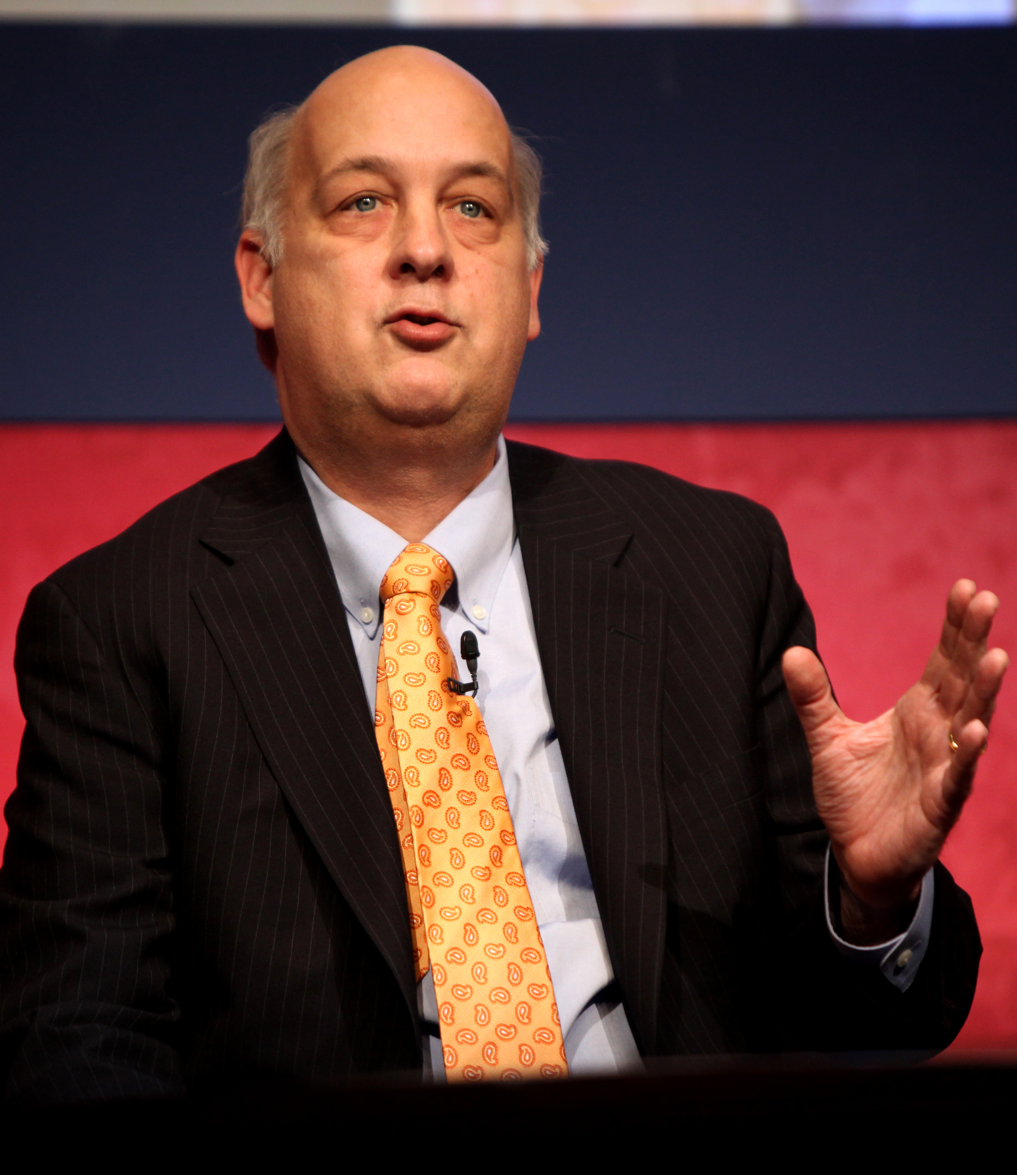 Scott Rasmussen speaking at CPAC in Washington D.C. on February 10, 2012.